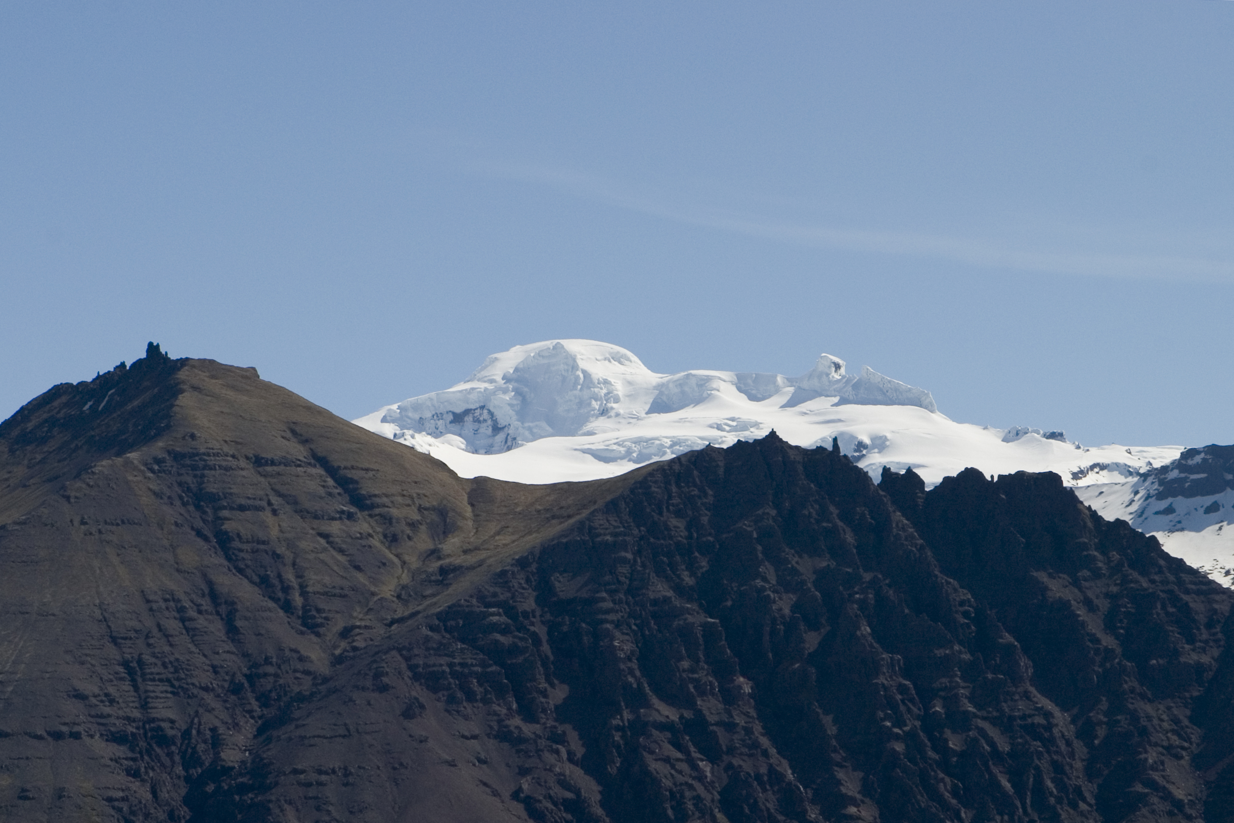 Hvannadalshnúkur, the highest peak of the Öræfajökull volcano and the highest point in Iceland. The mountain in front is Hafrafell. The view is from outside the service center in Skaftafell National Park.